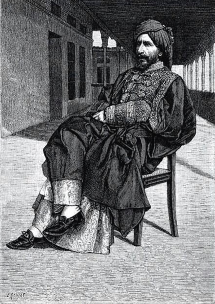 Sheikh Miz'al. Emir of Mohammerah